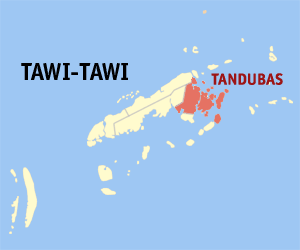 Map of the Tawi-Tawi showing the location of Tandubas